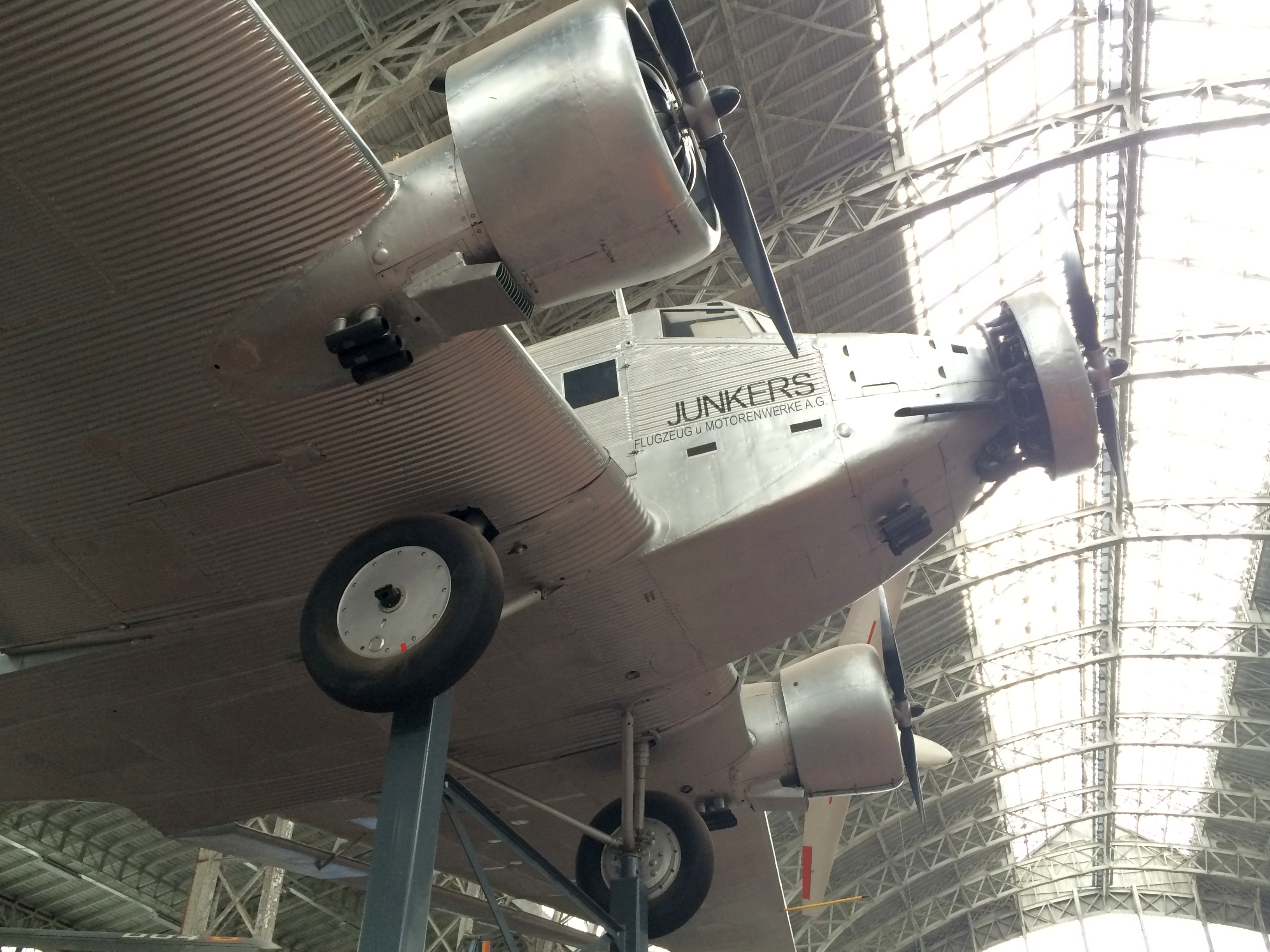 German transport plane Junkers Ju52 at the Royal Military Museum, Brussels. View from below. This is a file created at the museum: Royal Museum of the Armed Forces and of Military History in Brussels